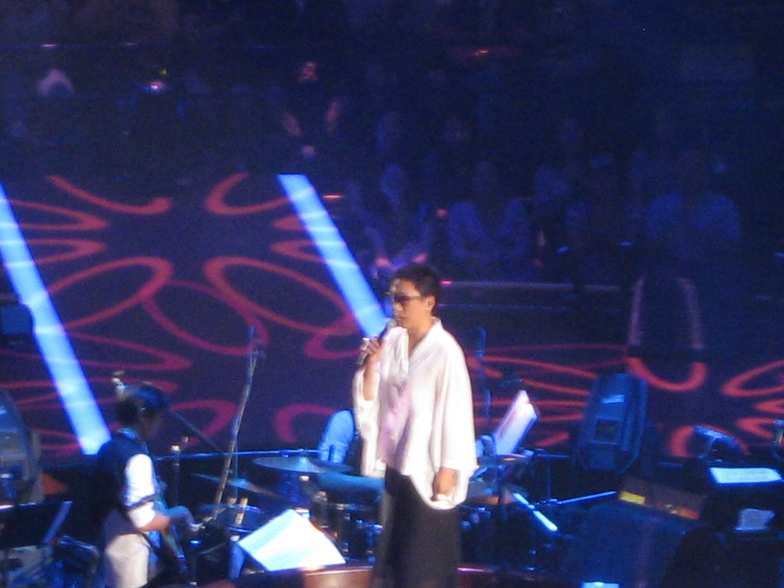 Tina Liu in Georgr Lam's Concert 2011